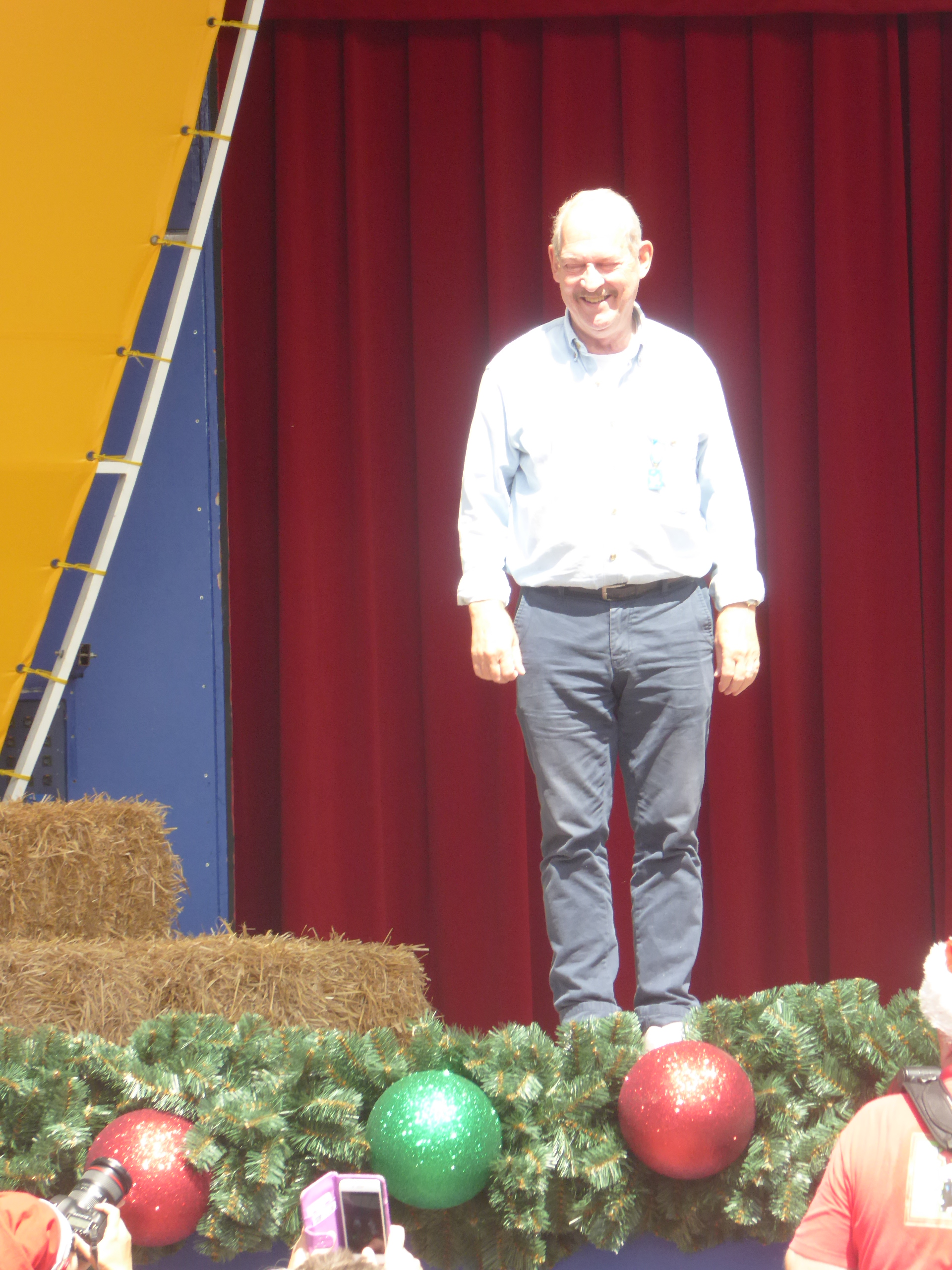 World Santa Claus Congress (Julemændenes Verdenskongres) in the amusement park Bakken north of Copenhagen. The Danish actor Claus Bue became the honour Santa Claus of the year due to his role as Santa Claus in several television advent calendars and movies.